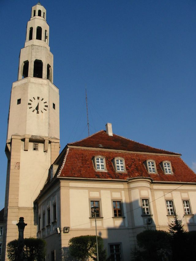 The town hall in Grybów Śląski, Poland